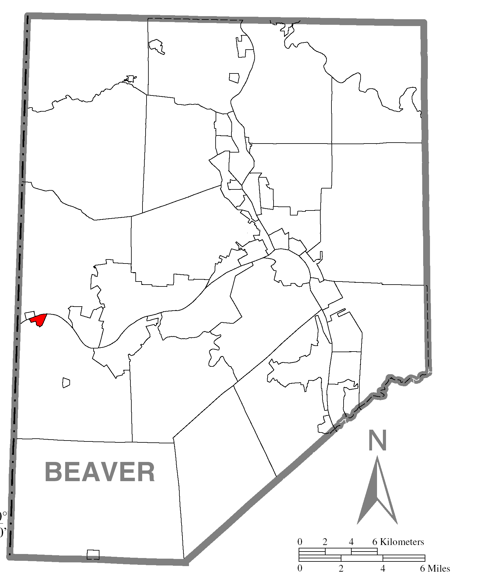 A map of Beaver County showing Georgetown, Pennsylvania (alternate) highlighted on the map.